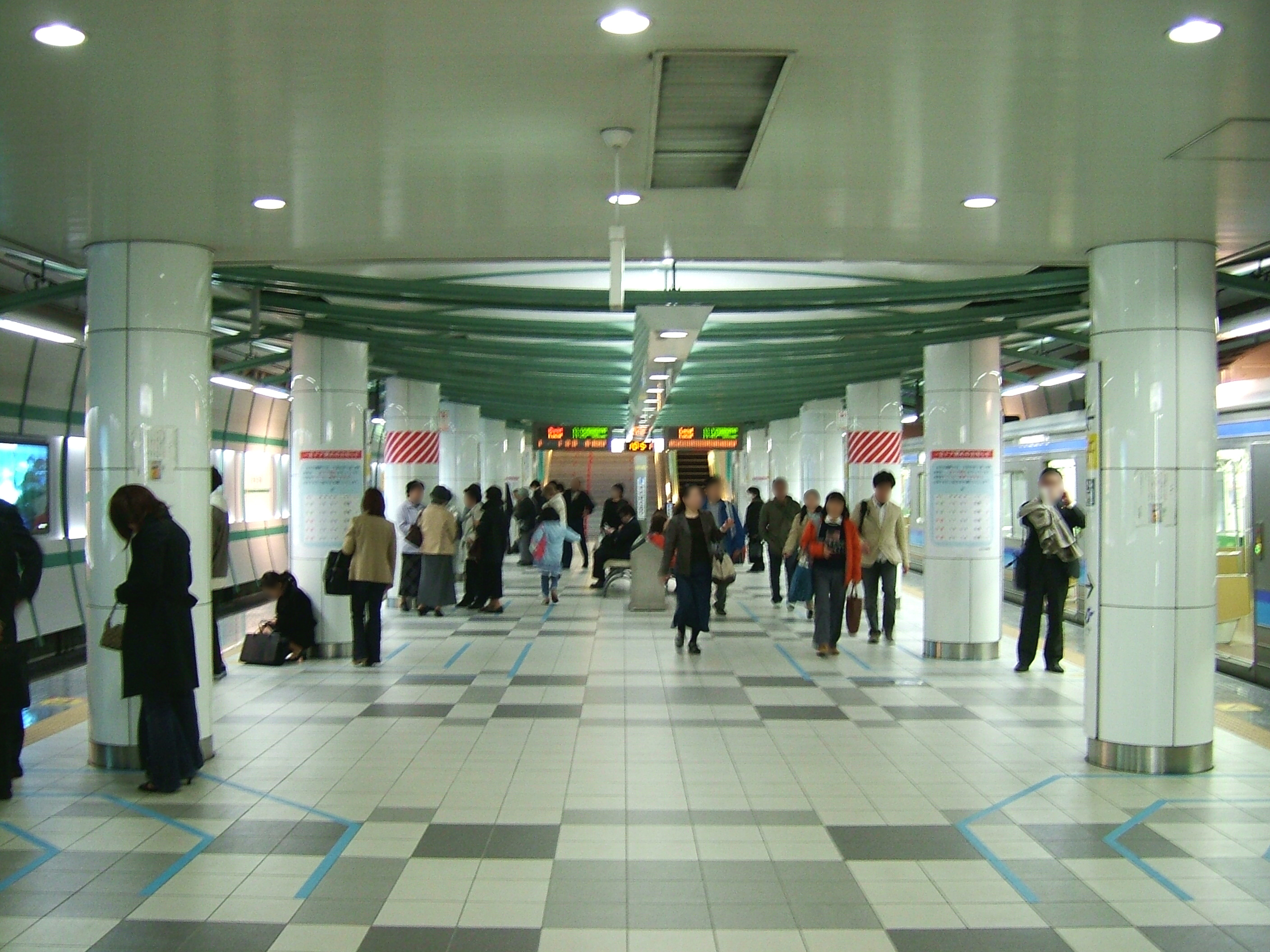 Senseki Line Aoba-dori Station platform